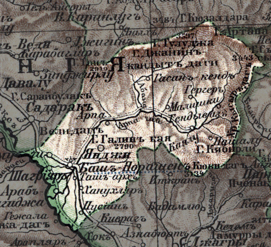 A highlighted map from 1903 of the Sharur-Daralagyoz uyezd within the Erivan Governorate.